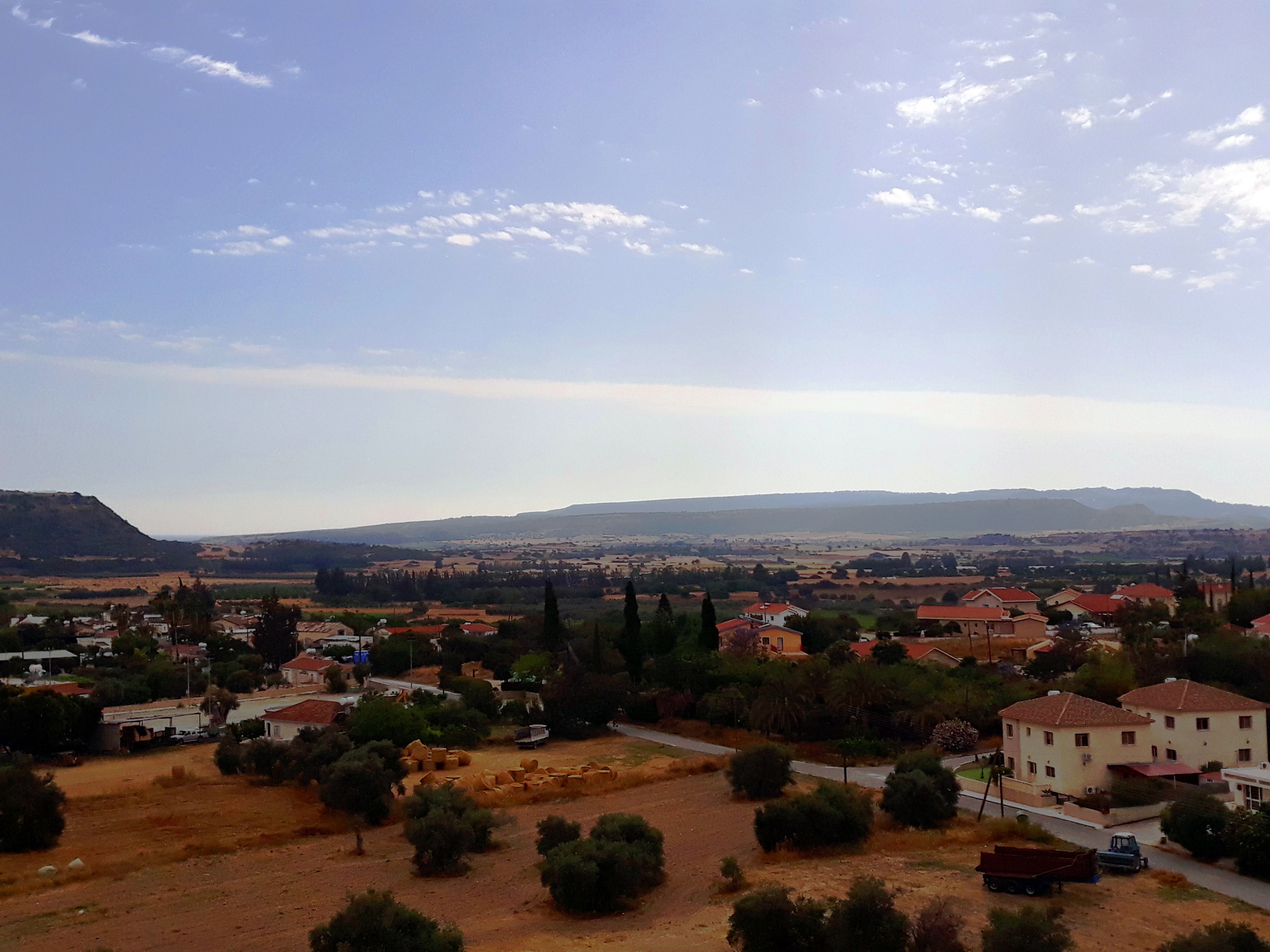 View of Paramali.